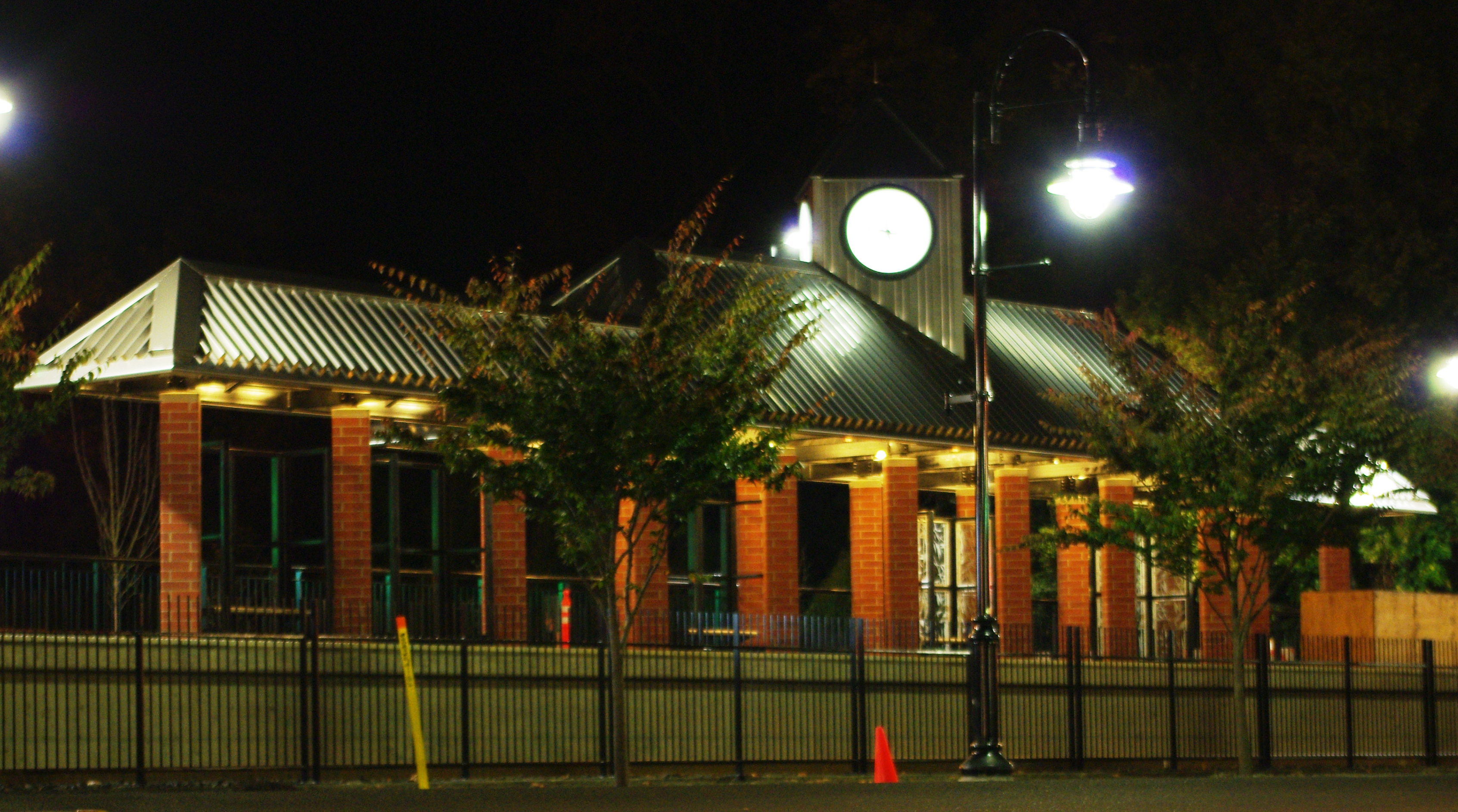 Tualatin Station, USA